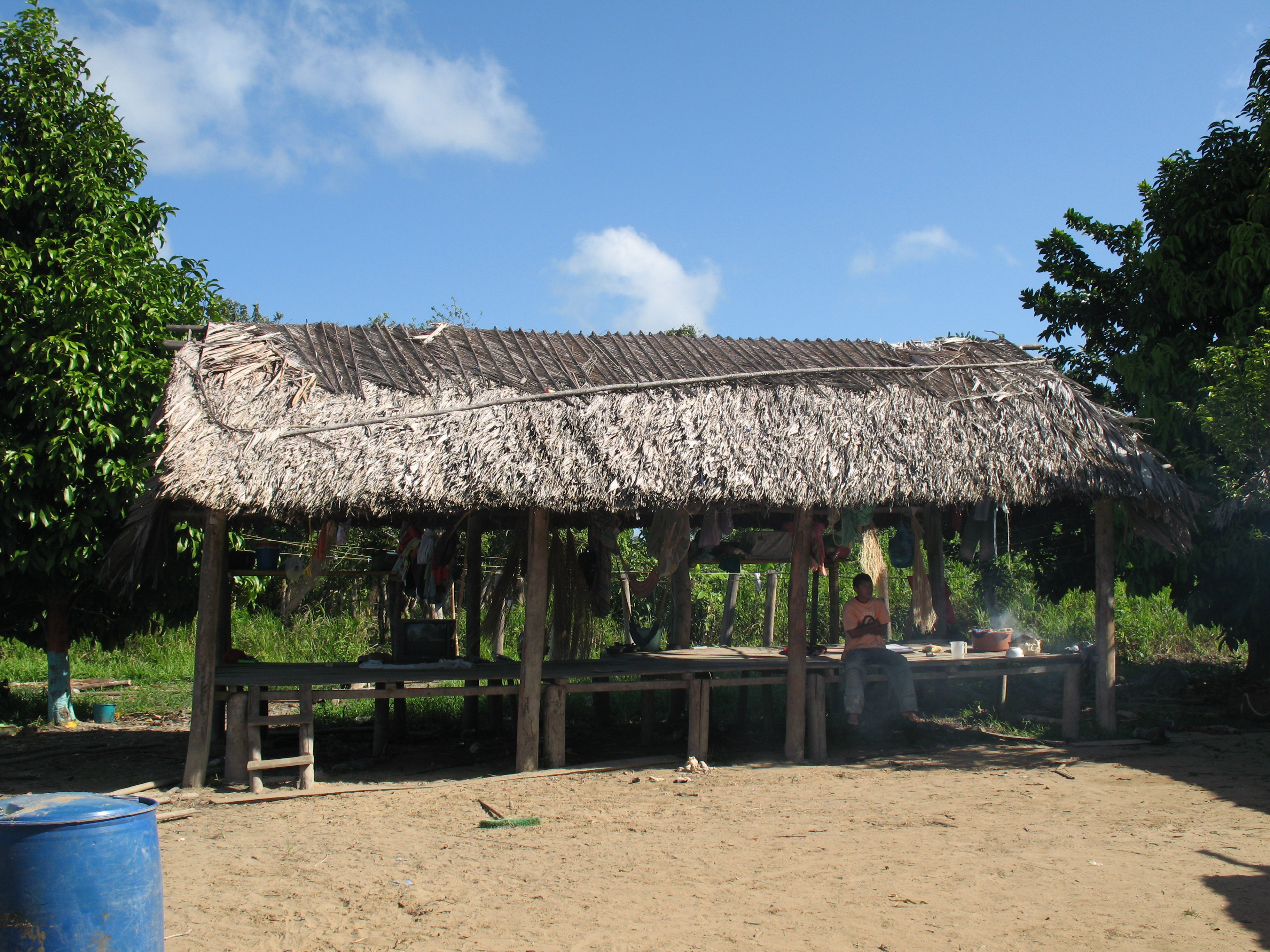 Warao village in Venezuela's Orinoco Delta region.